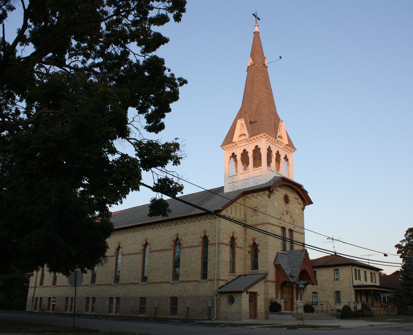 The Zion Evangelical Lutheran Church and Parsonage in Columbus, Wisconsin. It is listed on the National Register of Historic Places.